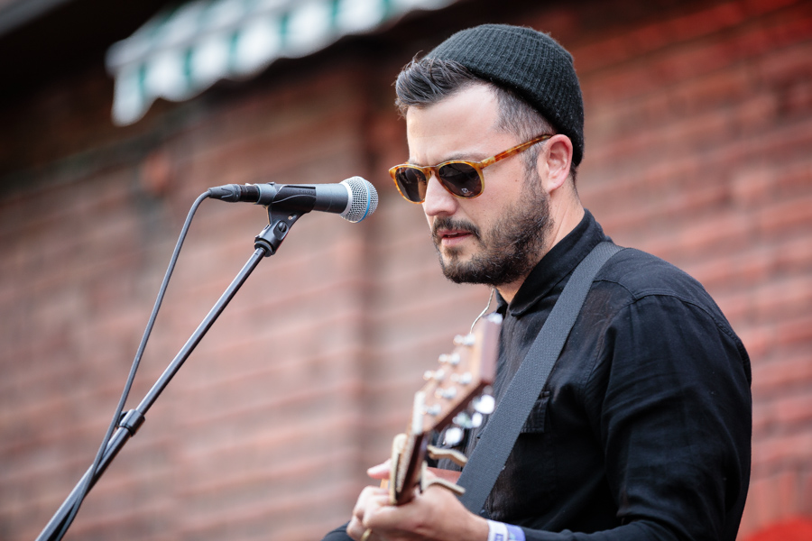 Syml at the Borggården stage in the Vigeland Park. The concert was part of Piknik i Parken and took place on 16. June 2018 in Oslo. Lineup:Brian Fennell (guitar / vocal and keyboard)